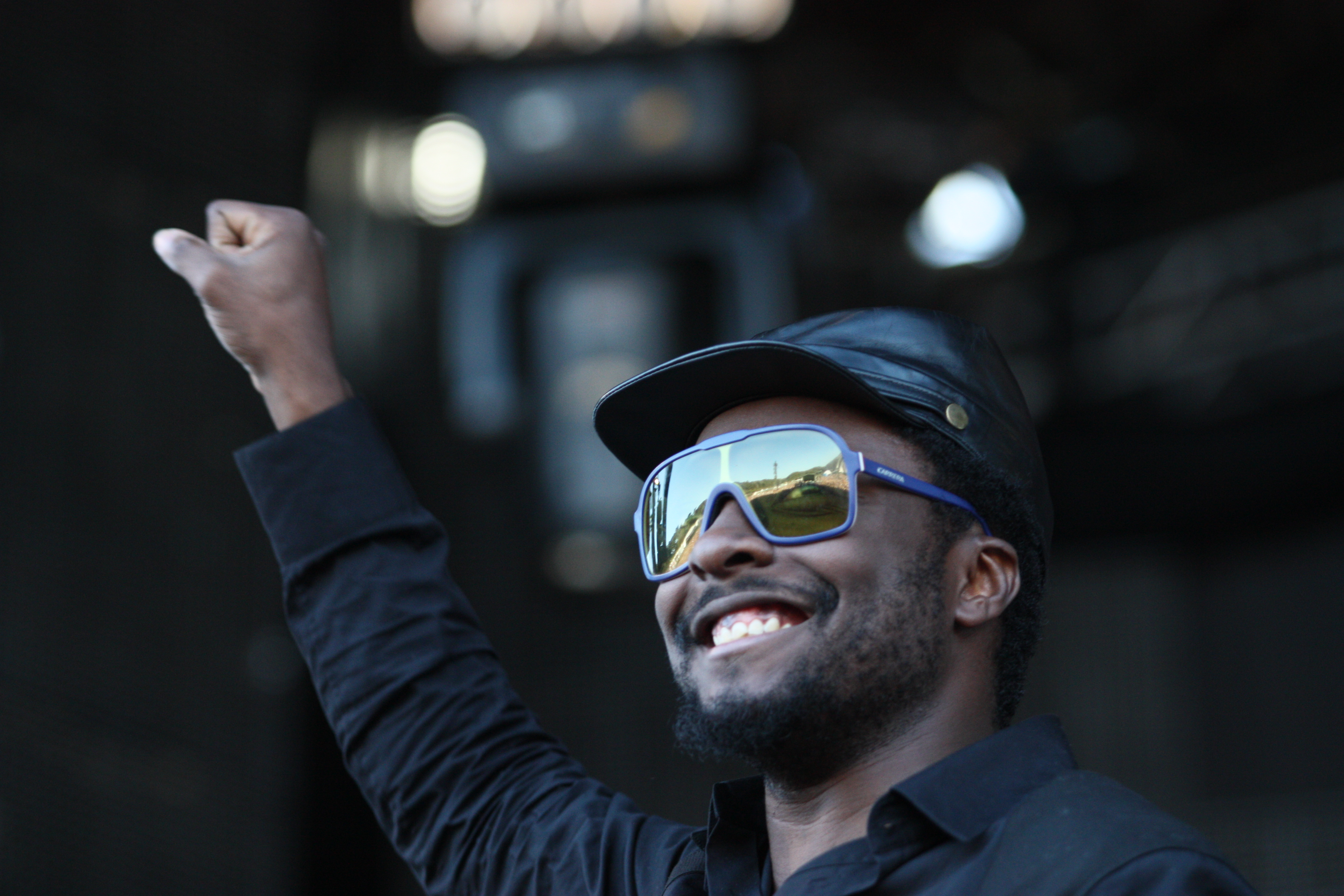 will.i.am performing with Black Eyed Peas at Outside Lands 2009